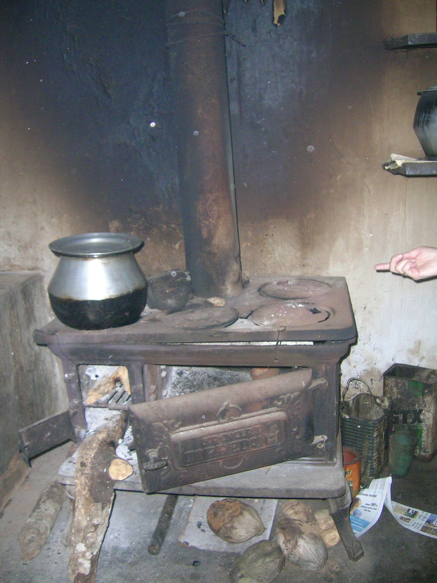 An old Woodstove ("Spencer's Torpedo No. 1") at an old British bungalow in a Coorg coffee estate (Pollibetta)